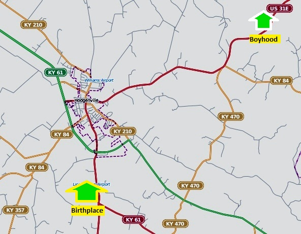 Location Map of the Abraham Lincoln Birthplace National Historical Park, two Kentucky properties Sinking Spring and Knob Creek using OpenStreetMap View Larger Map